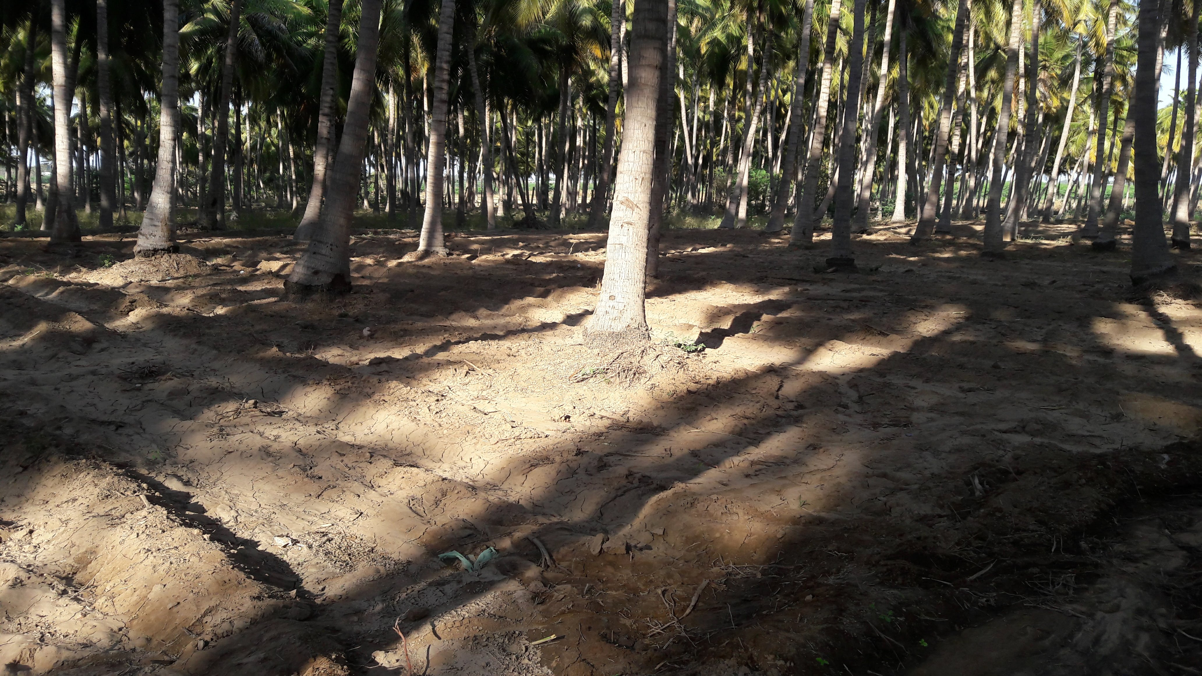 Keeladi archeological site Madurai